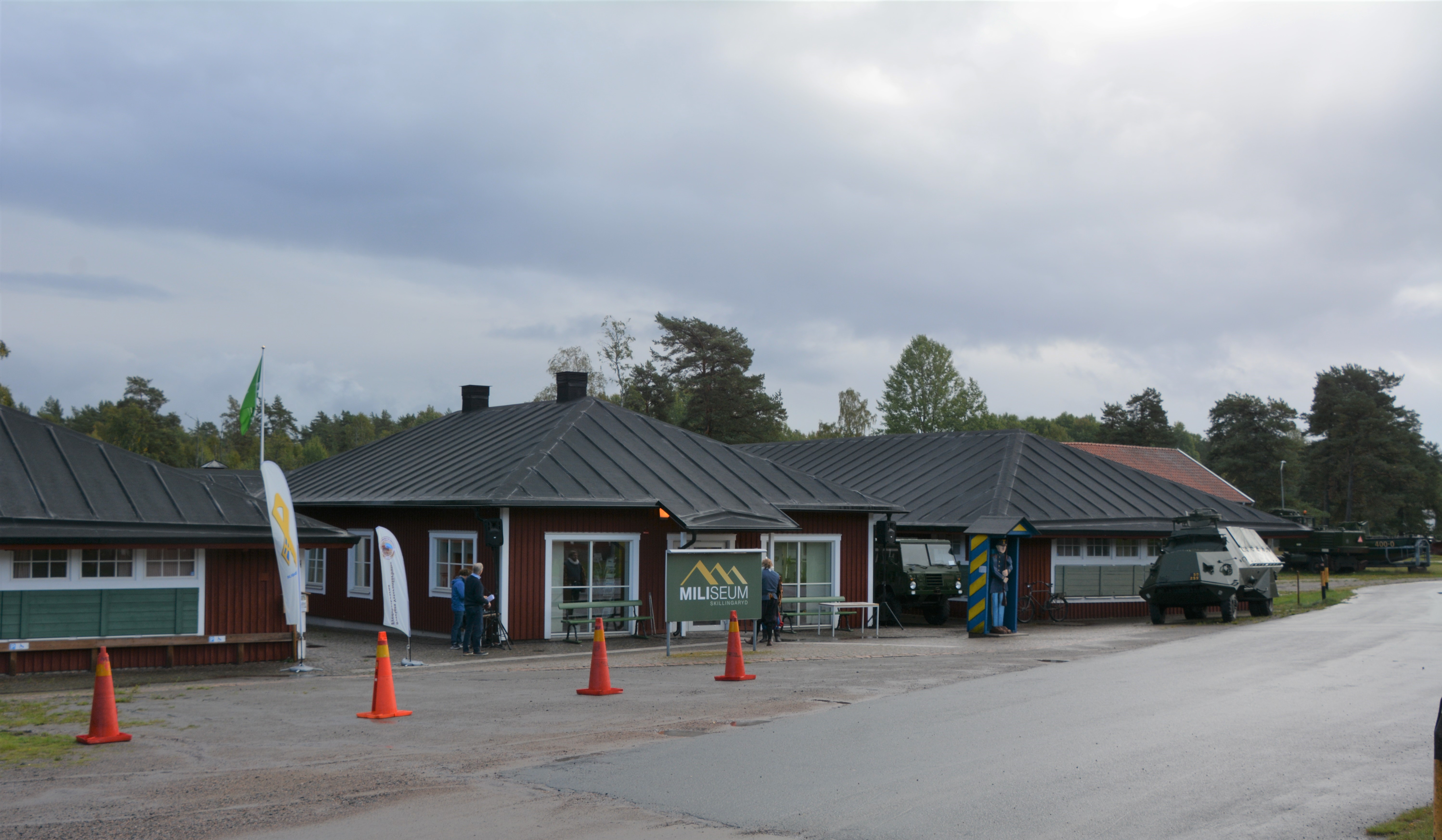 Militärhistoriska museet Miliseum i Skillingaryd